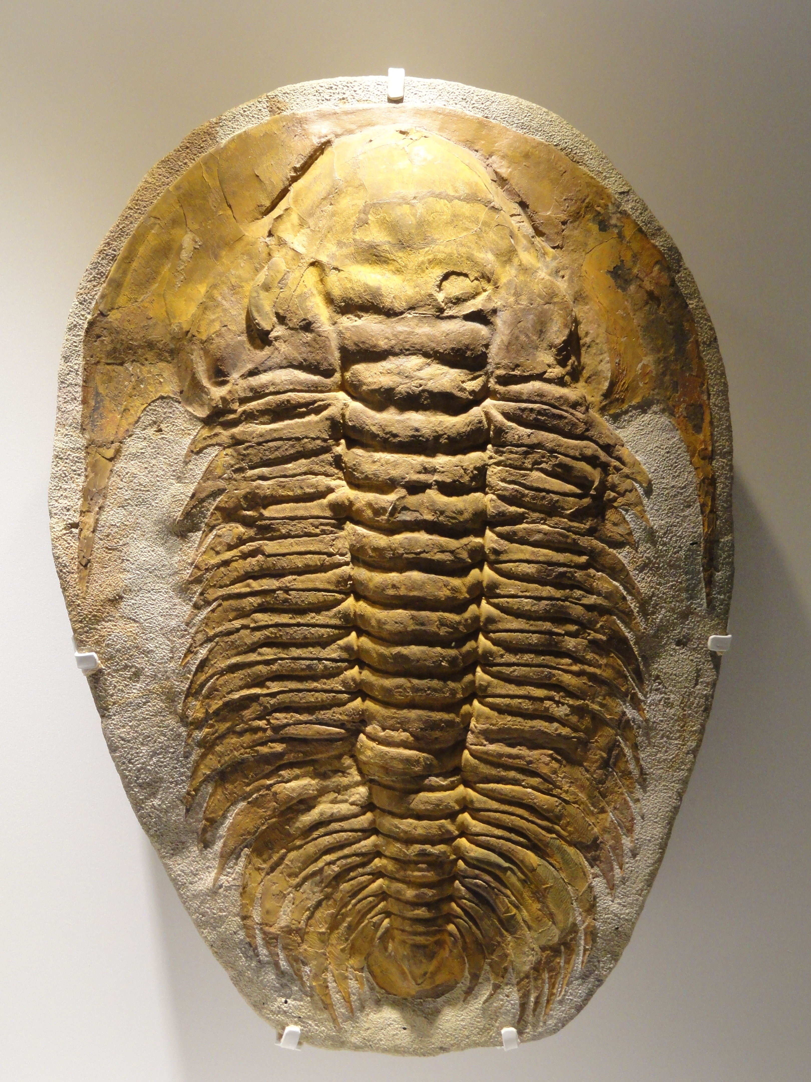 Exhibit in the Houston Museum of Natural Science, Houston, Texas, USA.